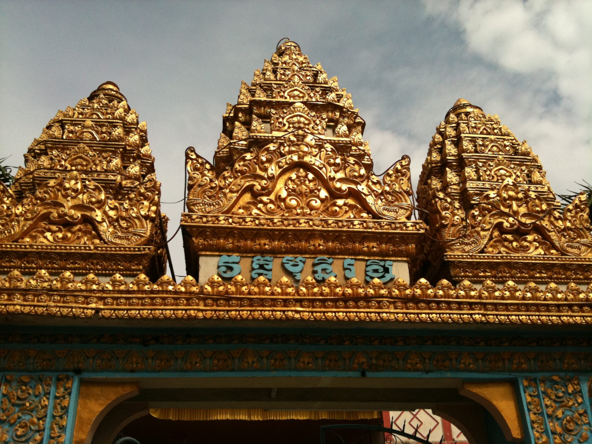 Top of the gate of Munirensay Khmer Temple, Can Tho, Vietnam.